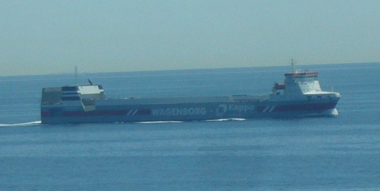 Either M/S Balticborg or M/S Bothniaborg in Baltic Sea